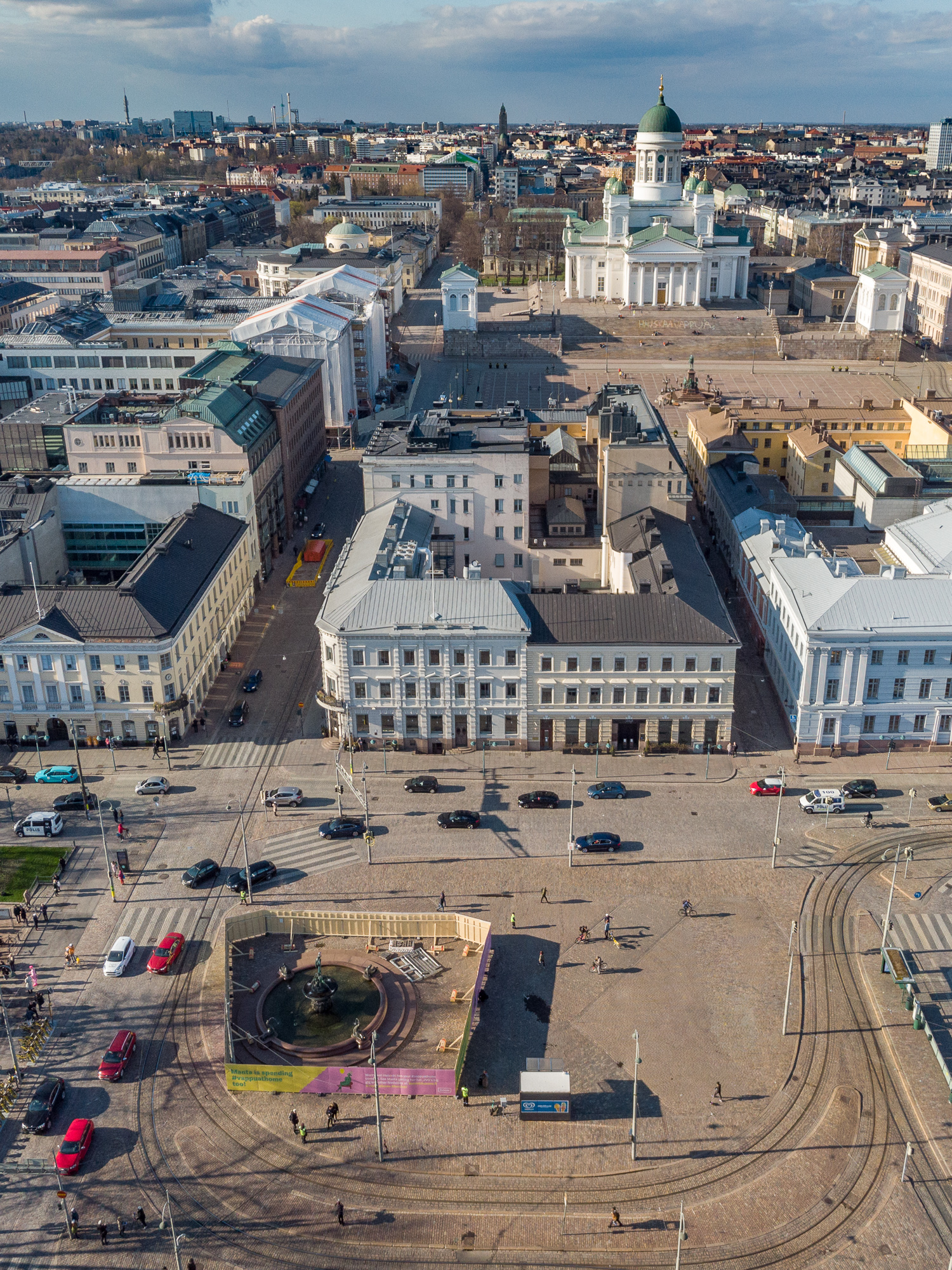 Aerial view of Havis Amanda statue and Senate Square during May Day eve celebration in Helsinki, Finland